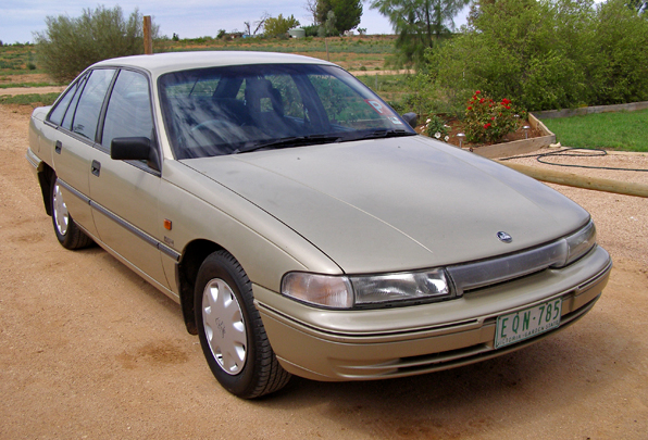 1992 Holden VP Commodore Executive sedan.